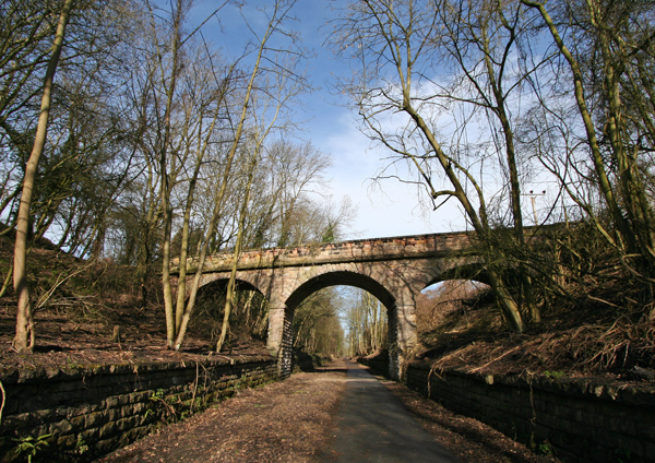 Thorpe Arch Railway Cutting. Now part of Sustrans Route 66 cycle track